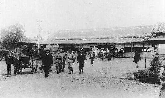 Chiba Station in Taisho era